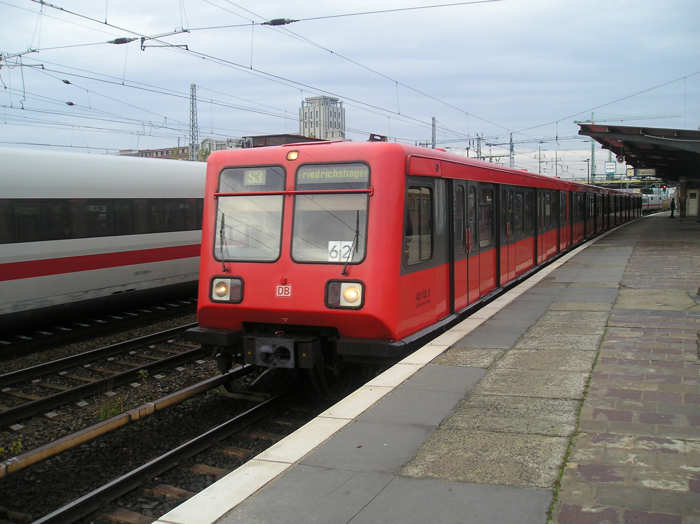 S-Bahn line S3 for Friedrichshagen at Bahnhof Berlin Warschauer Straße.